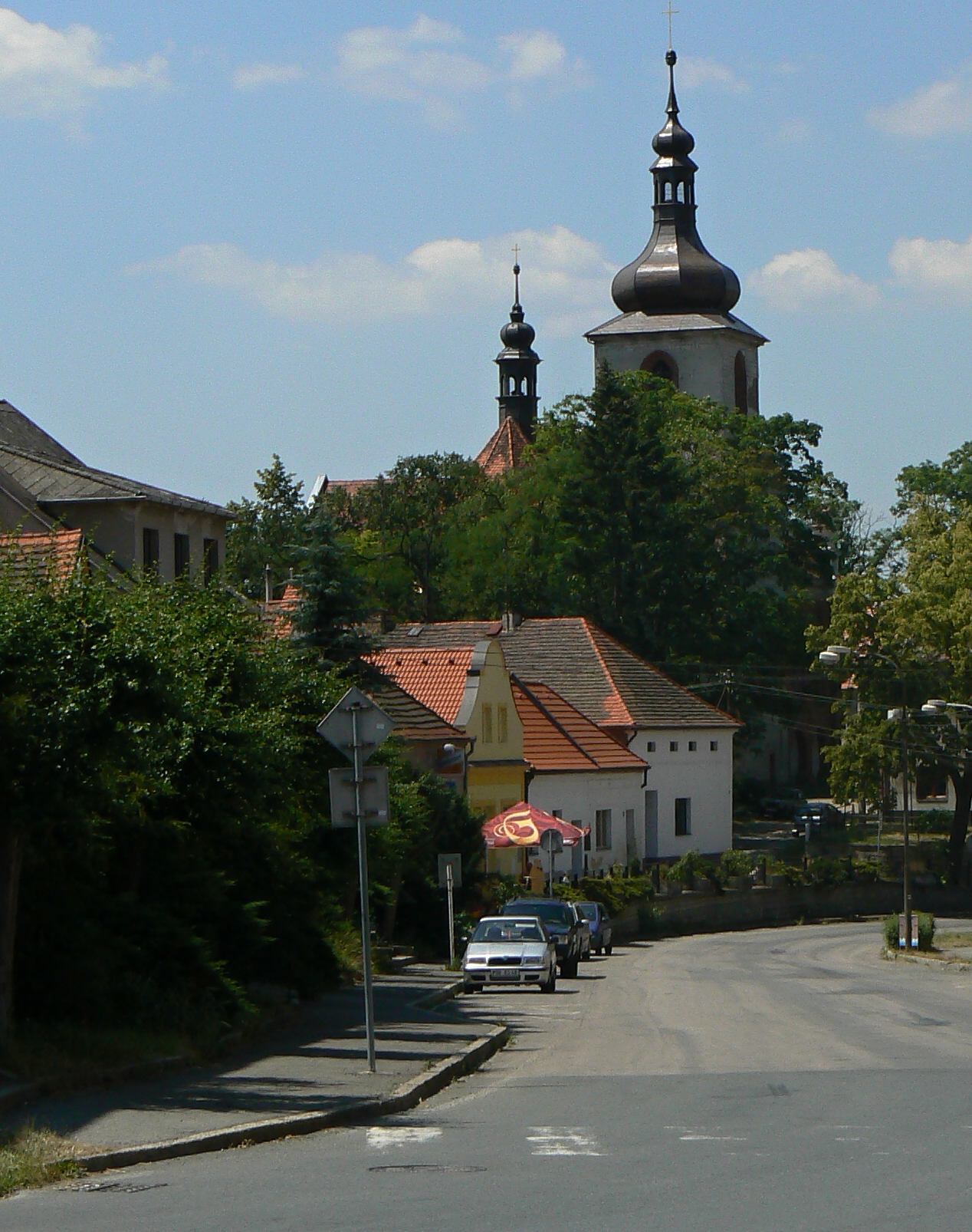 Church in Karlovice in Plzeň-North District